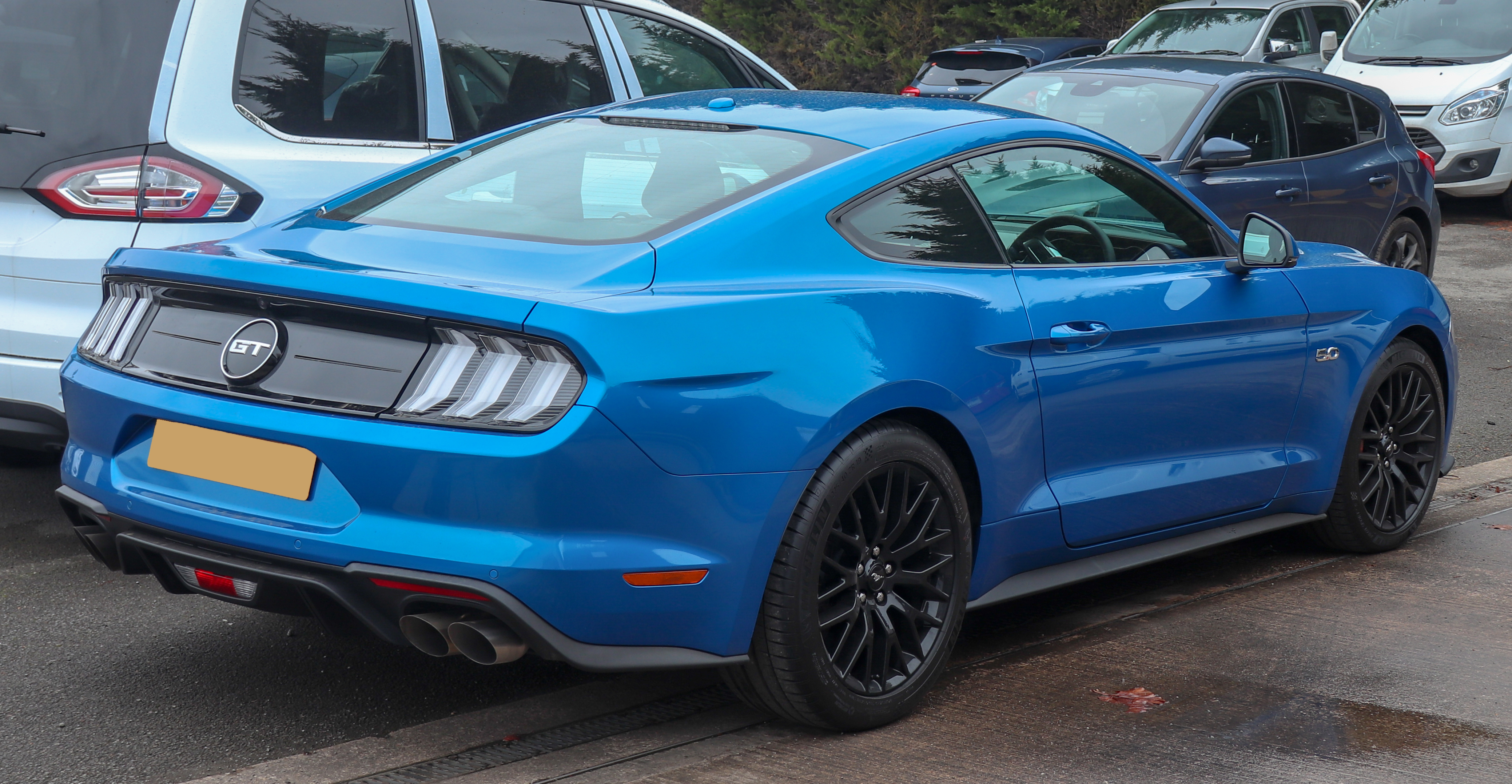 2019 Ford Mustang GT 5.0 facelift Rear Taken in Leamington Spa